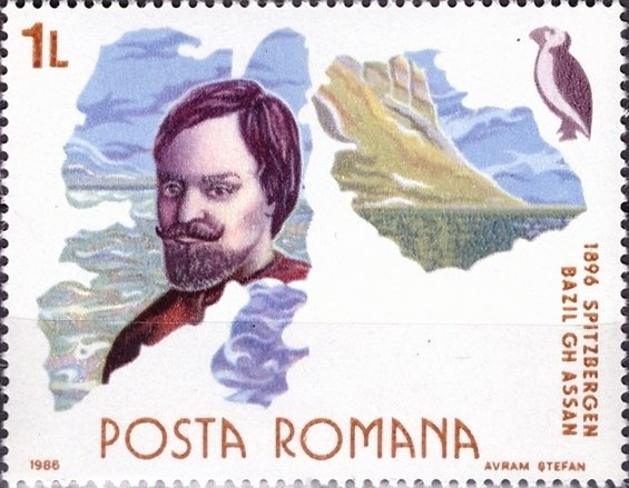 Stamp of Bazil Assan, the first Romanian to travel to the Artic and around the world